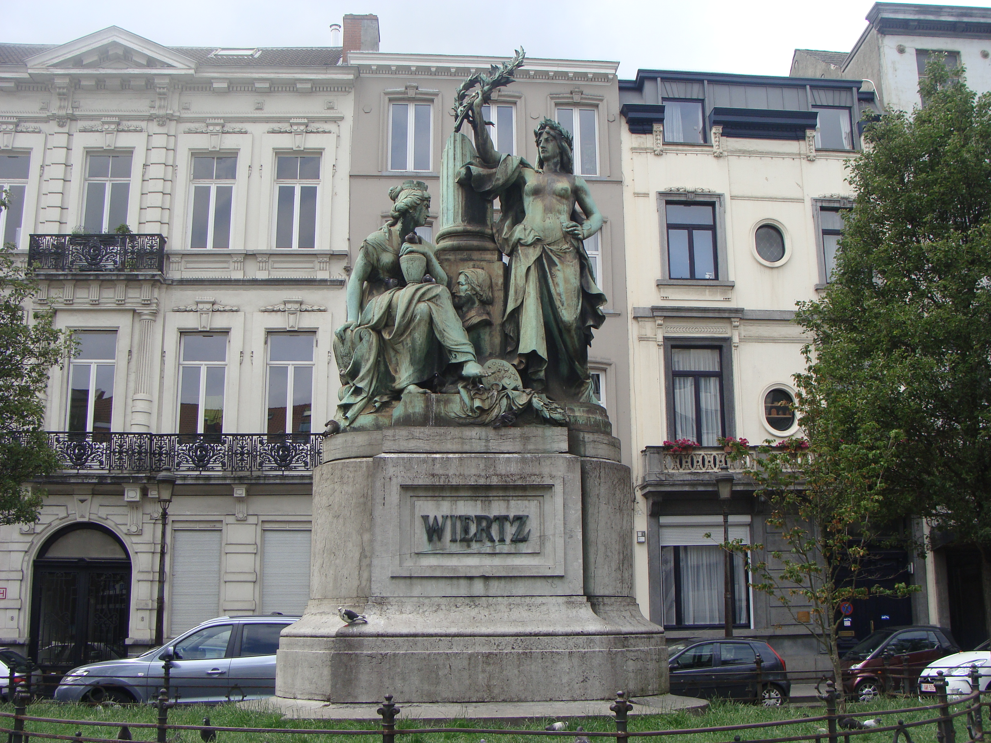 Monument Wiertz (Ixelles)